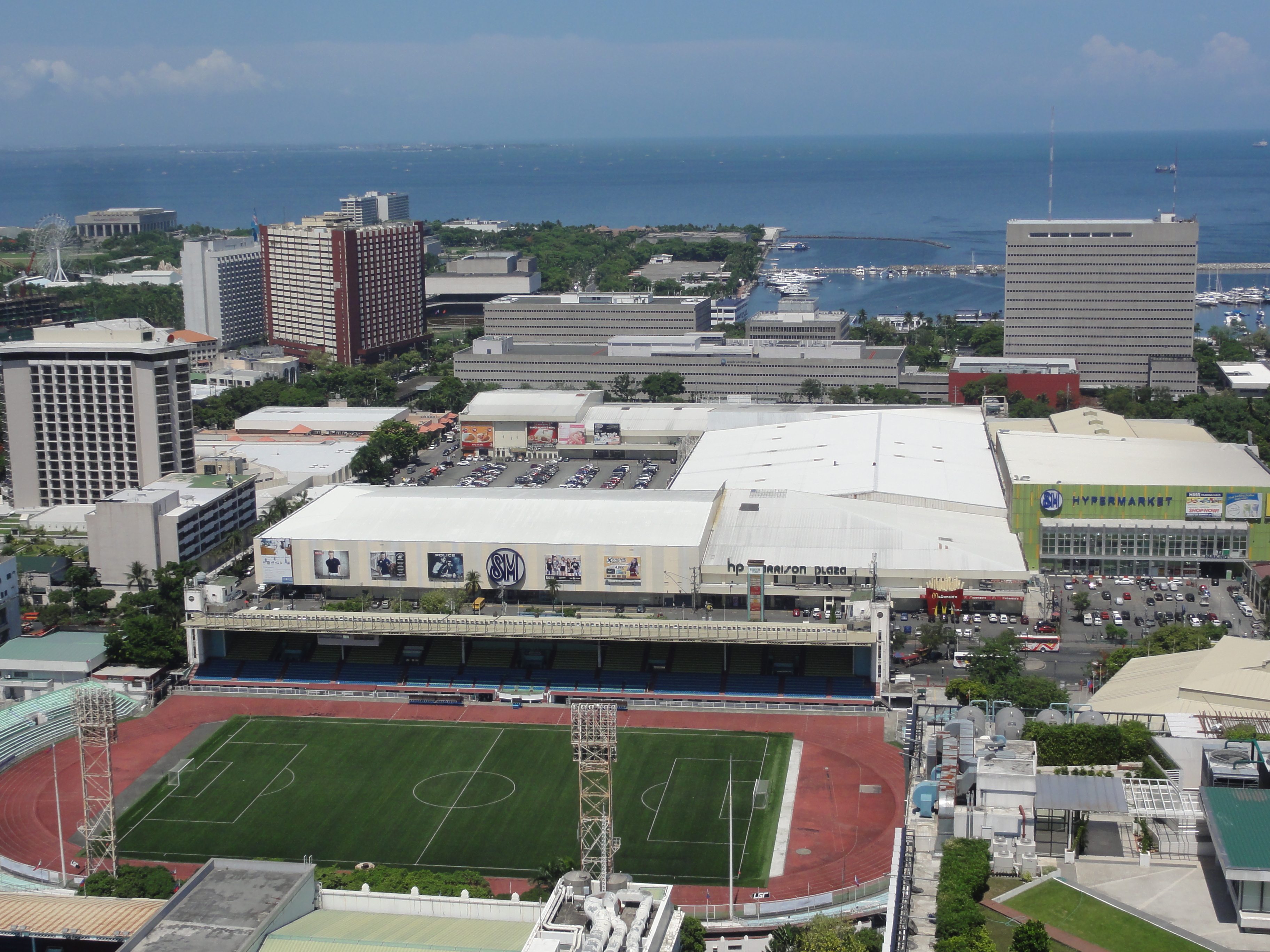 Aerial View of Malate District in Manila - with Manila Bay, CCP, Bangko Sentral, Harrison Plaza and Rizal Memorial Football Stadium